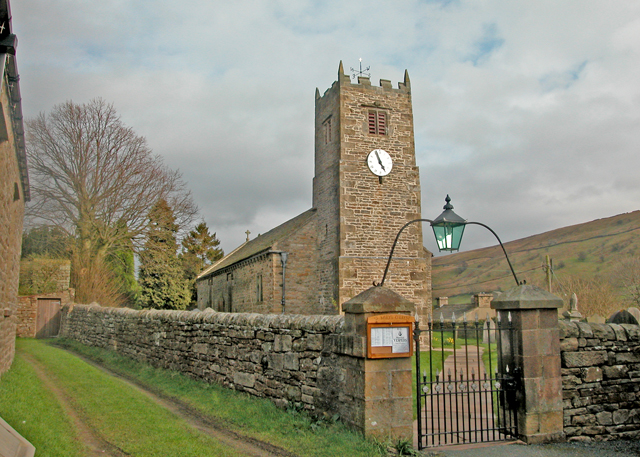 St Mary's church Parish church of Muker.